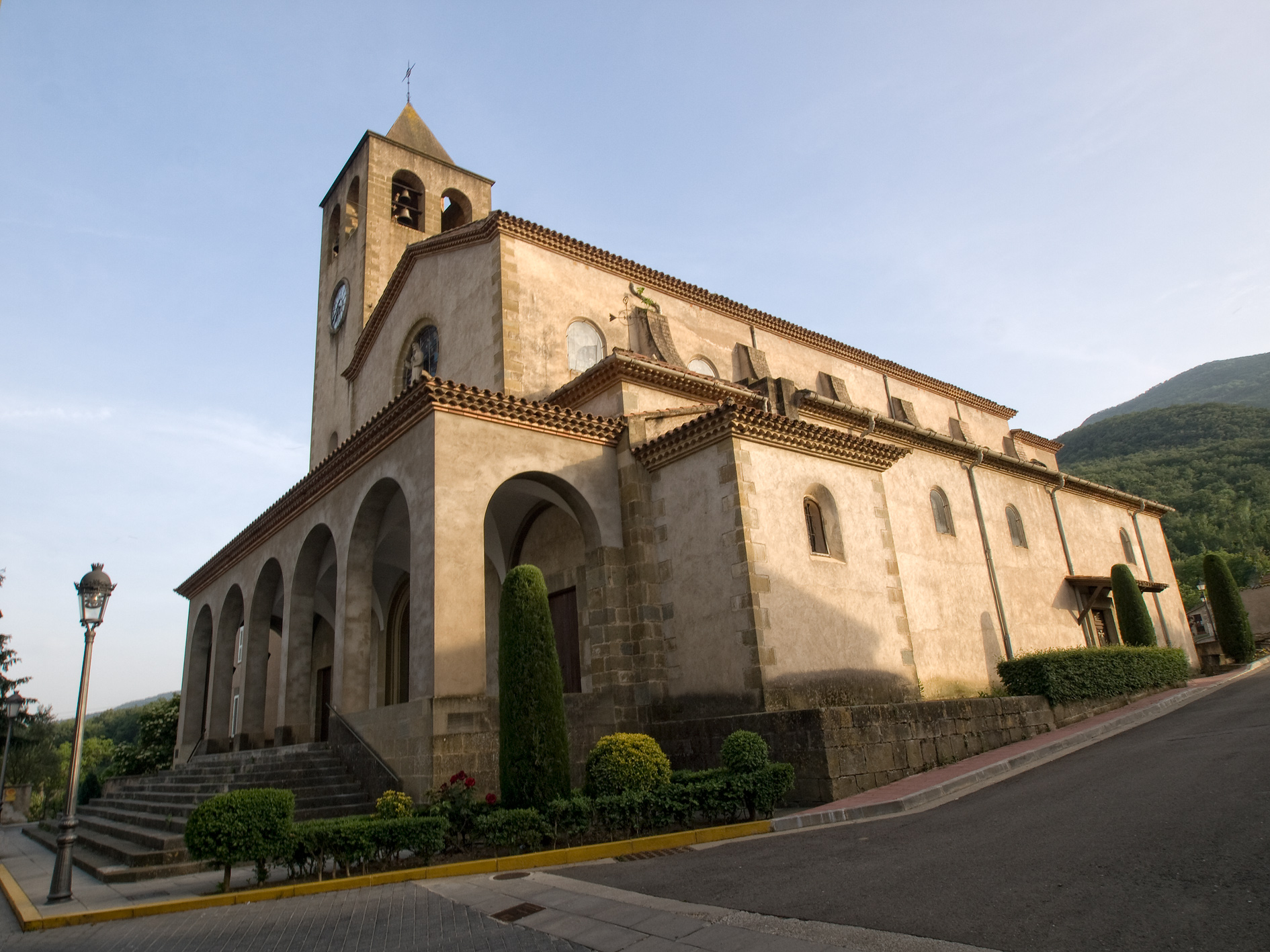 Les Planes d'Hostoles church (Gerona, Spain)